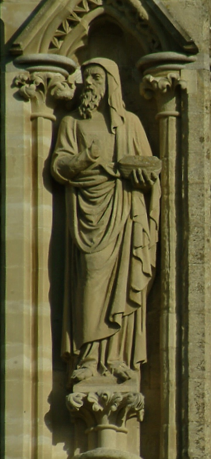 A statue of Noah on the West Front of Salisbury Cathedral, UK